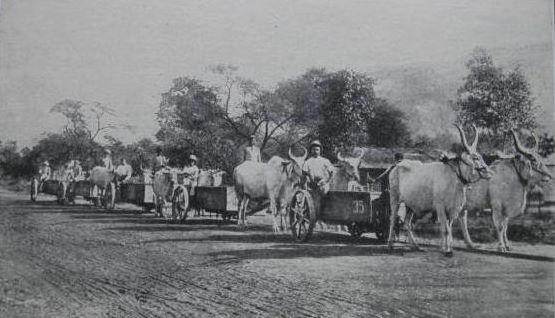 Patiala State Monorail Trainways - One team of bullocks can haul in one monorail truck as much as ten teams and wagons over a macadam road